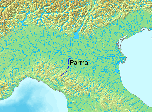 Location of Parma river - Italy